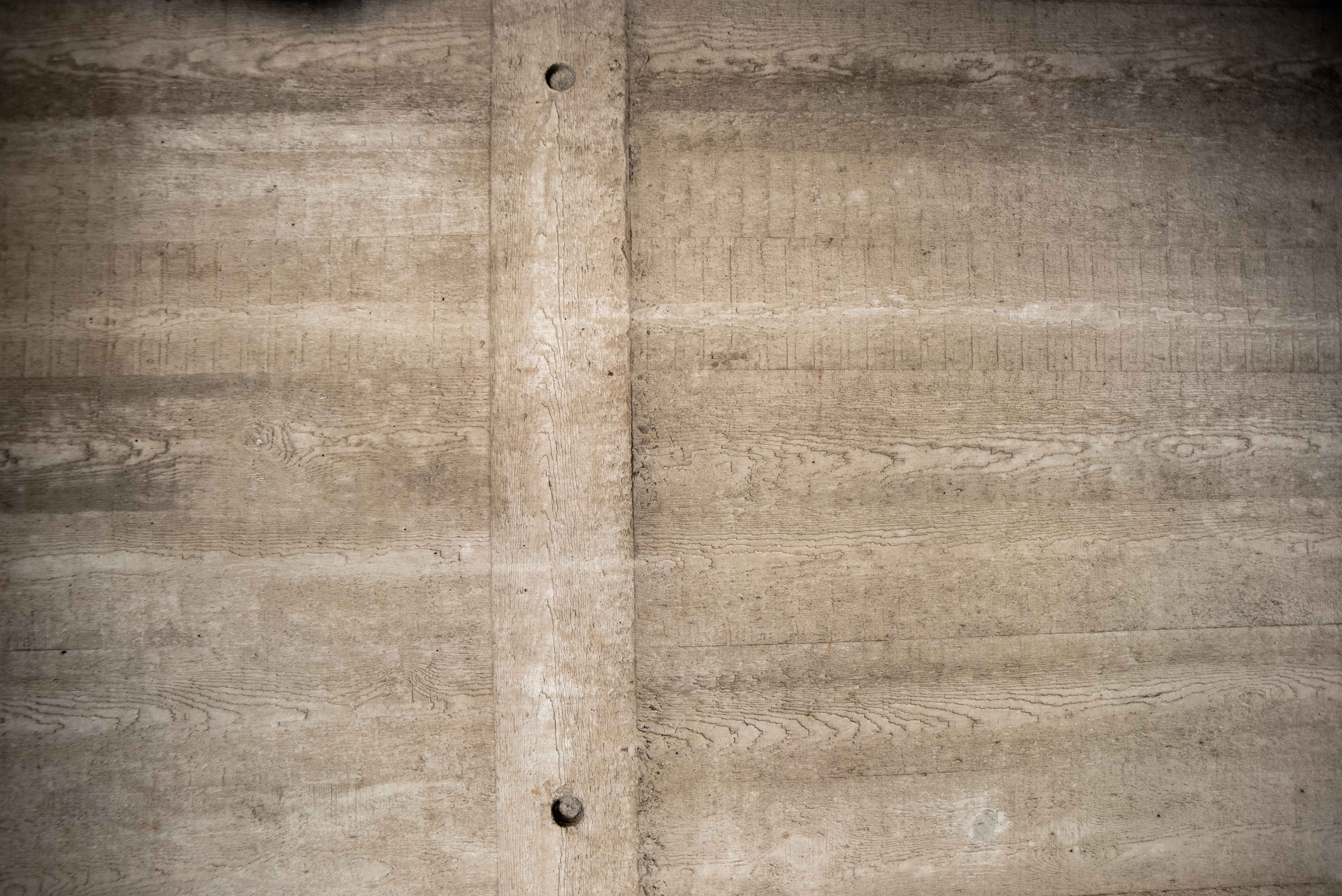 Board-marked concrete on the interior walls of Clifton Cathedral, Bristol, UK